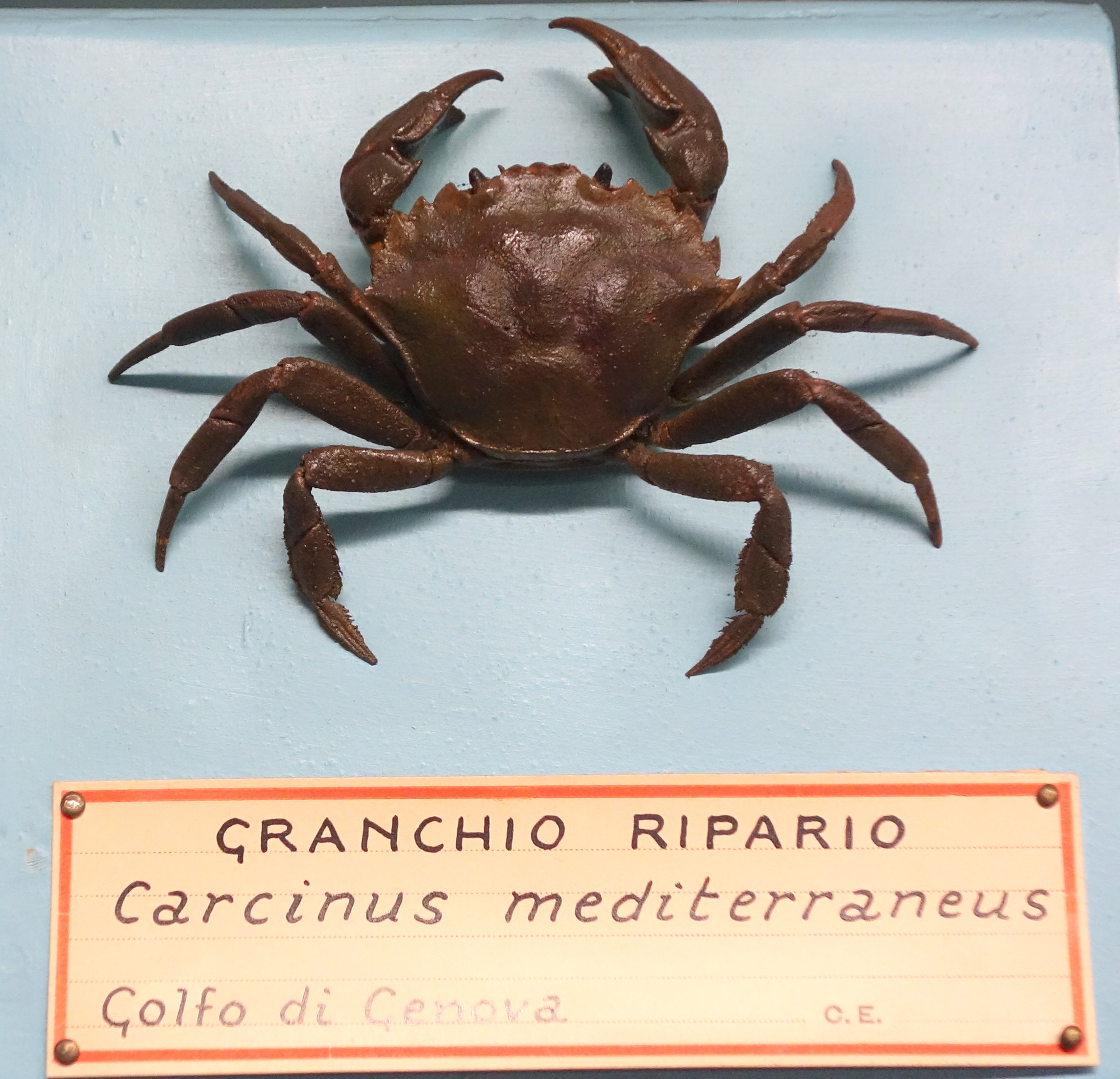 Exhibit in the Museo Civico di Storia Naturale di Genova, Via Brigata Liguria, 9, 16121, Genoa, Italy.